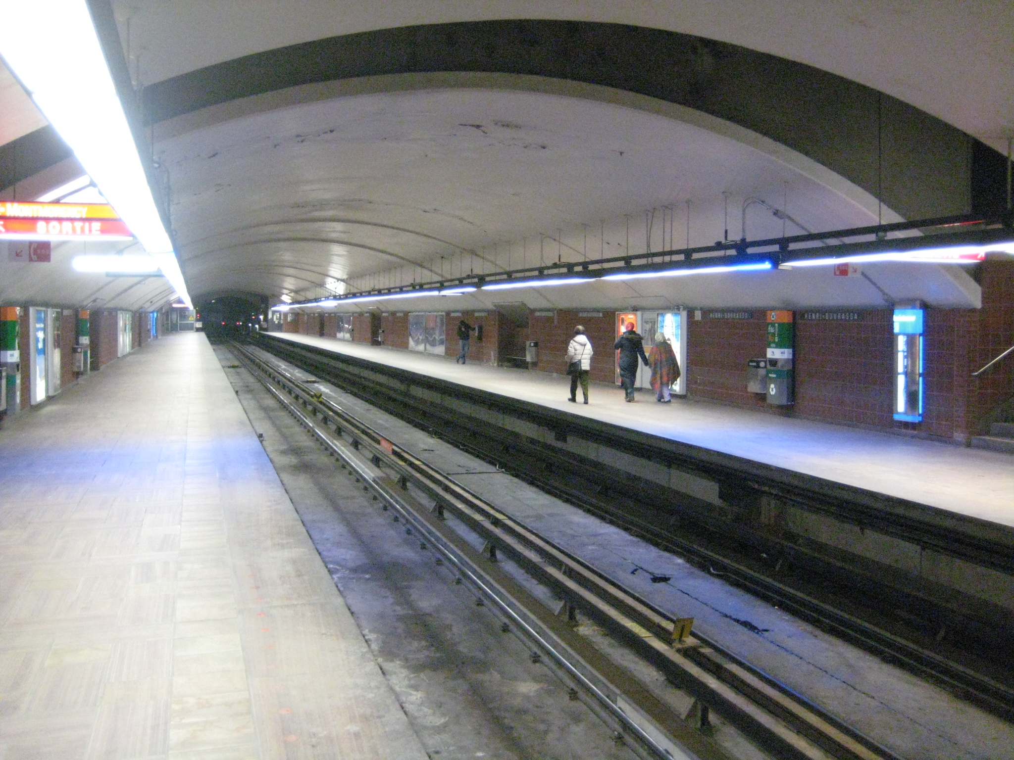 Henri-Bourassa Metro original station platform